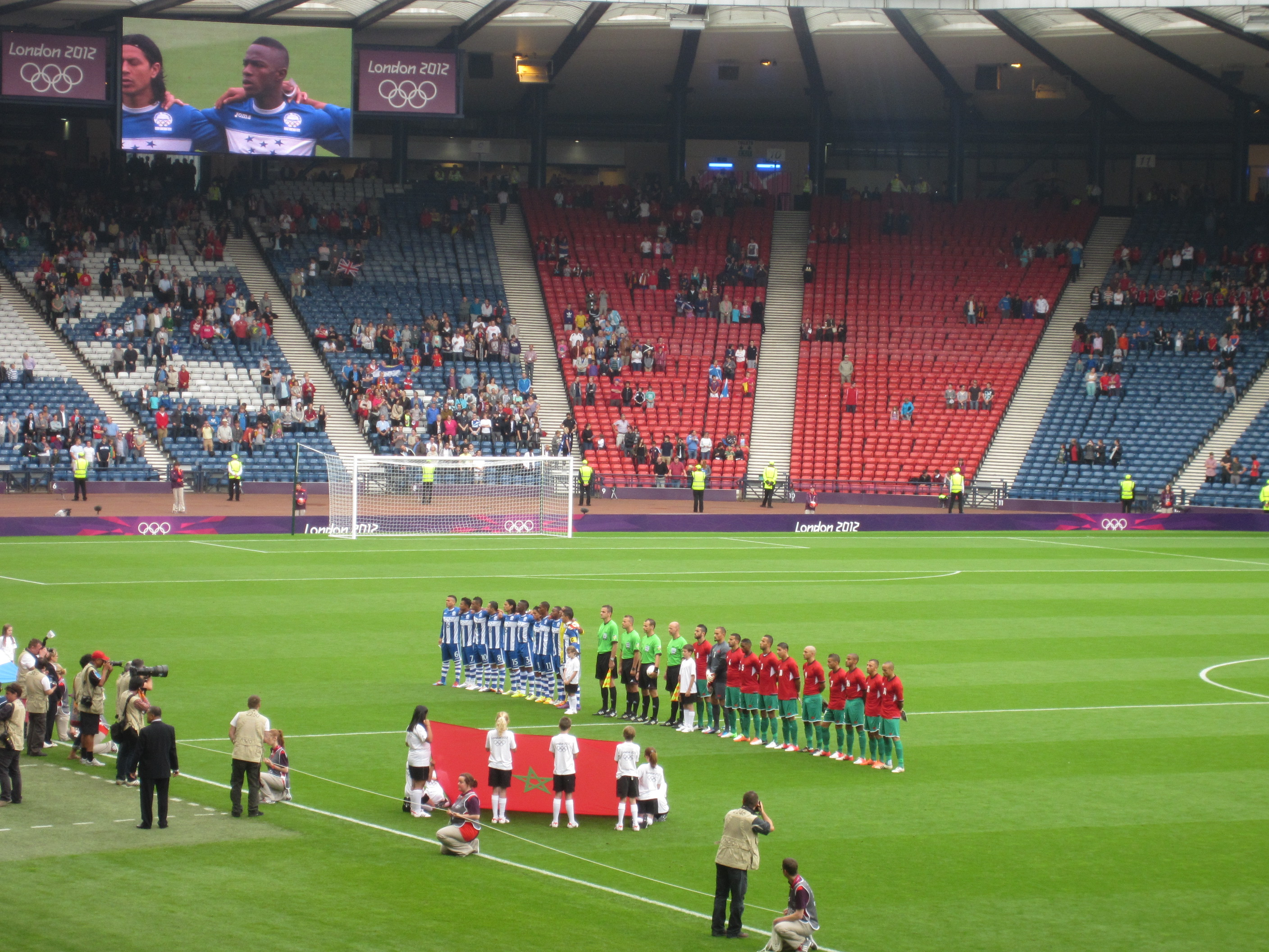 2012 Olympic Football - Honduras v Morocco